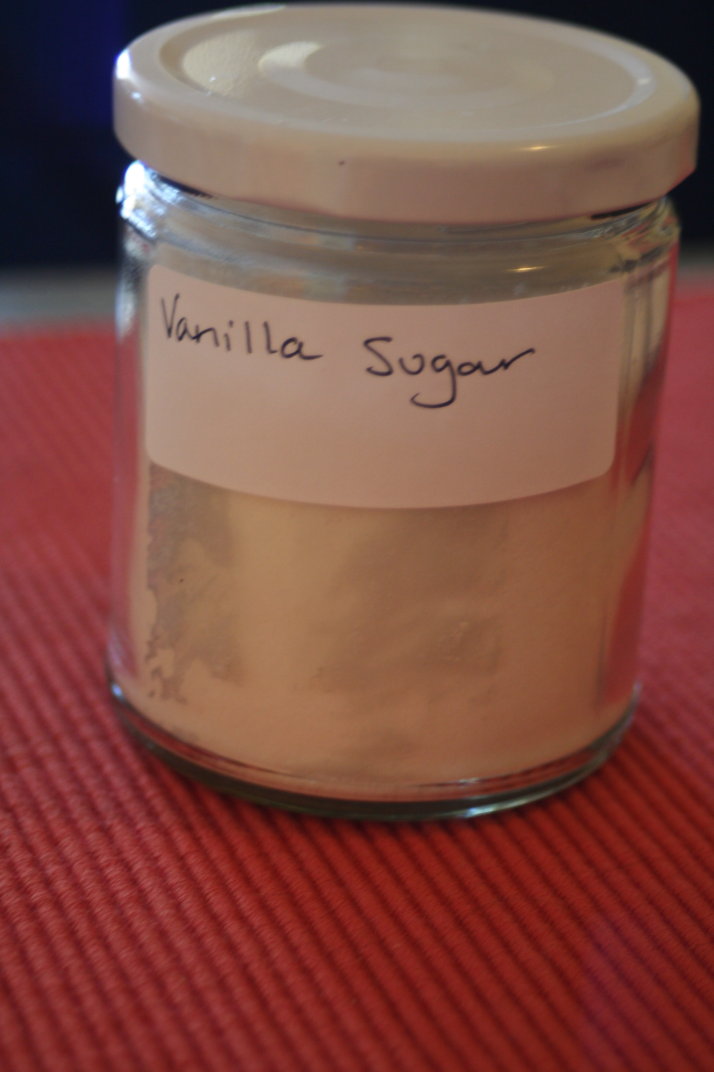 Best thing to do with that leftover vanilla bean